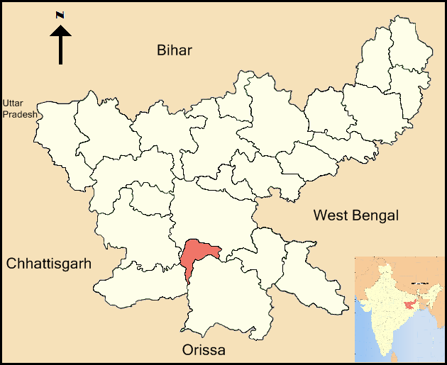 A locator map of Khunti district, Jharkhand state, India